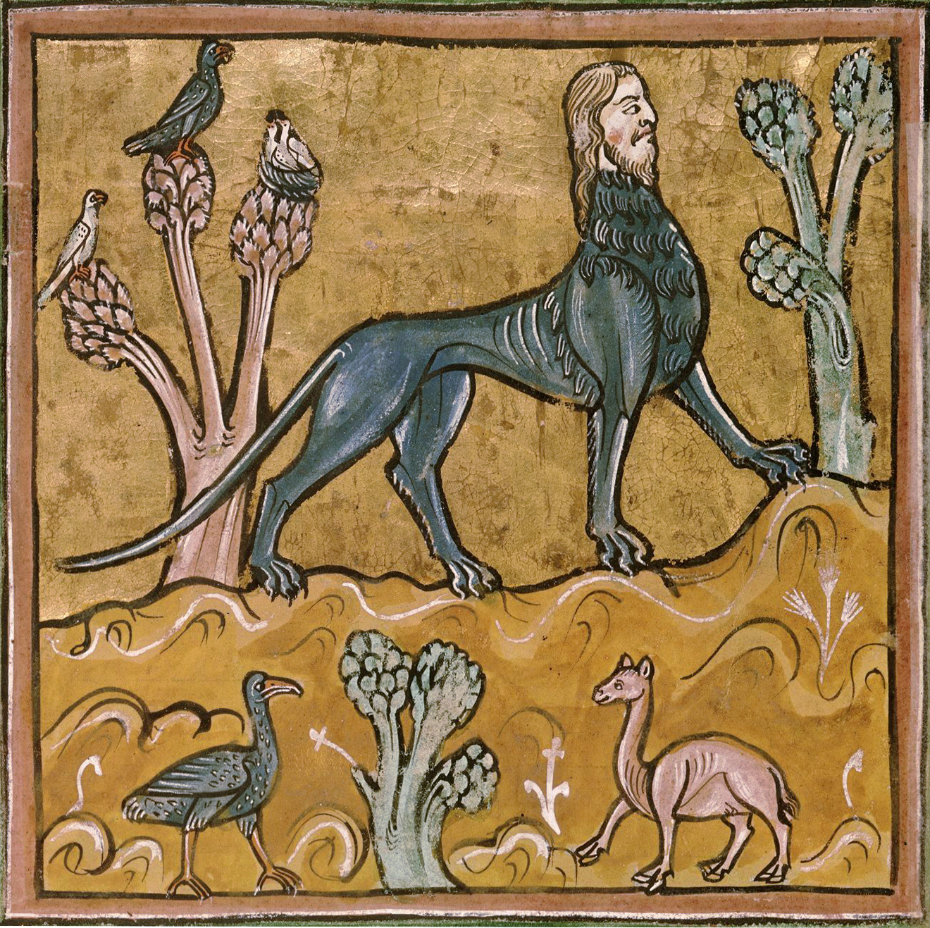 Illustration of a manticore; detail of a miniature from the Rochester Bestiary, BL Royal 12 F xiii, f. 24v. Held and digitised by the British Library.